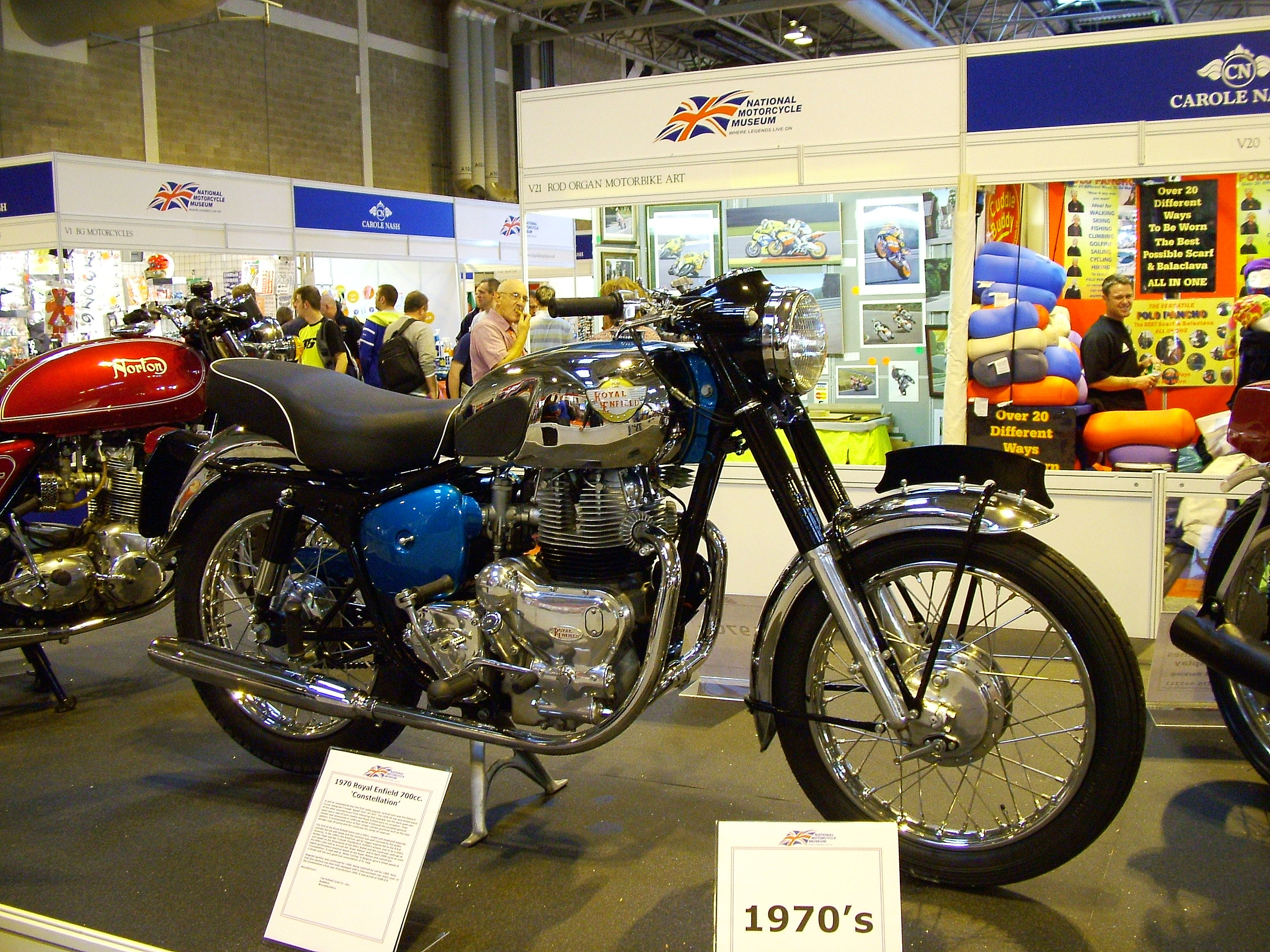 1970 Royal Enfield 700cc Constellation @ 2006 NEC Motorcycle and Scooter Show